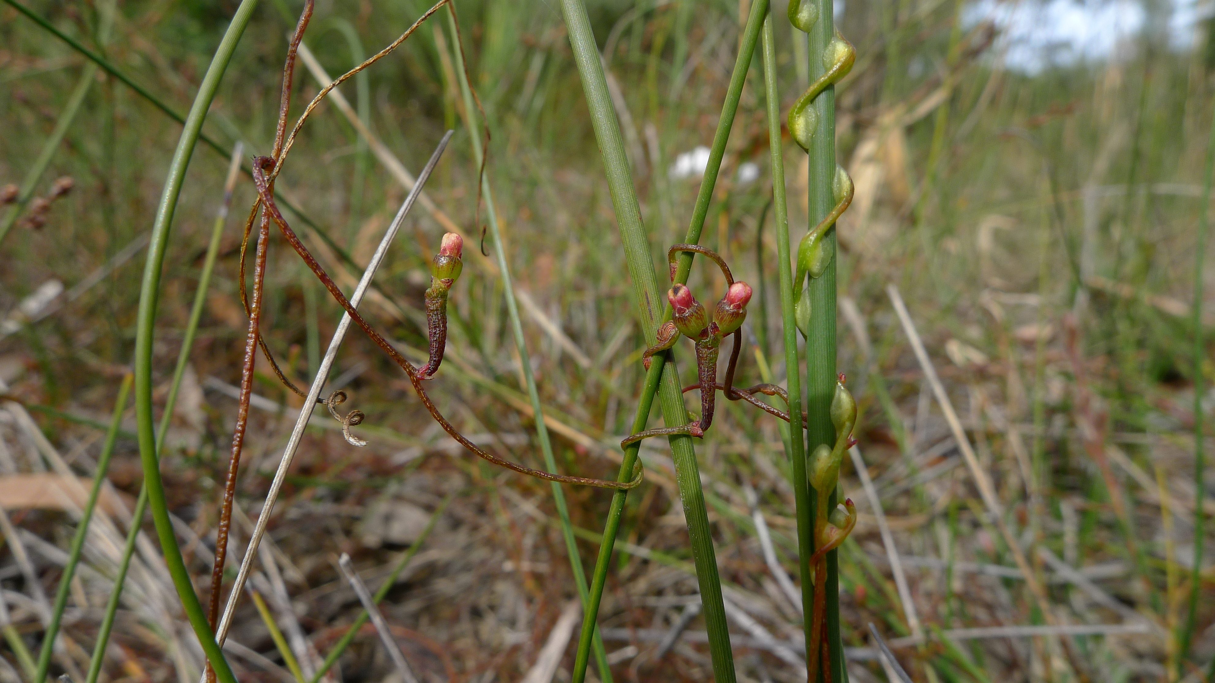 Devil's Twine, Cassytha glabella. Royal National Park, NSW Australia, August 2011.